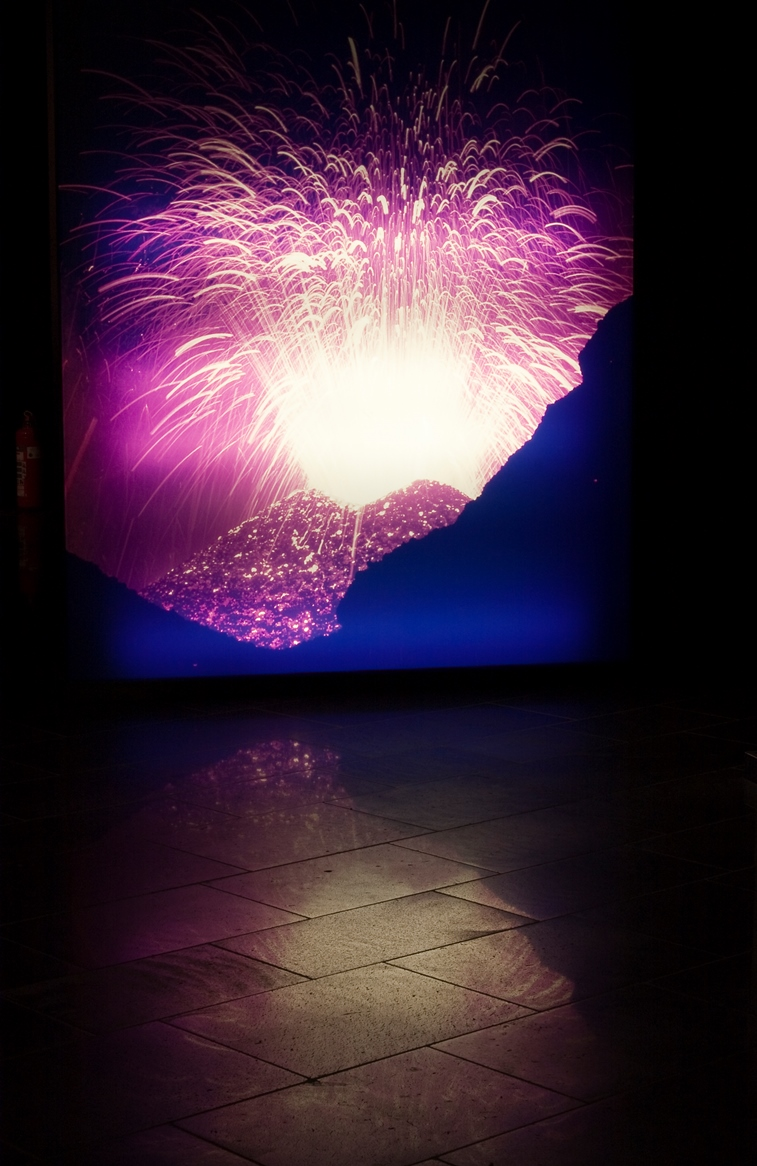 Volcano. Information Centre